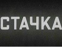 opening credits of the film Strike by Sergueï Eisenstein, 1925